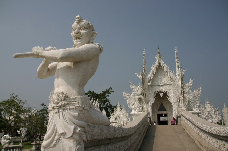 Wat Rong Khun (วัดร่องขุ่น), a modern temple built since 1998 by Thai artist Chalermchai Kositpipat near Chiang Rai. By A. Aruninta